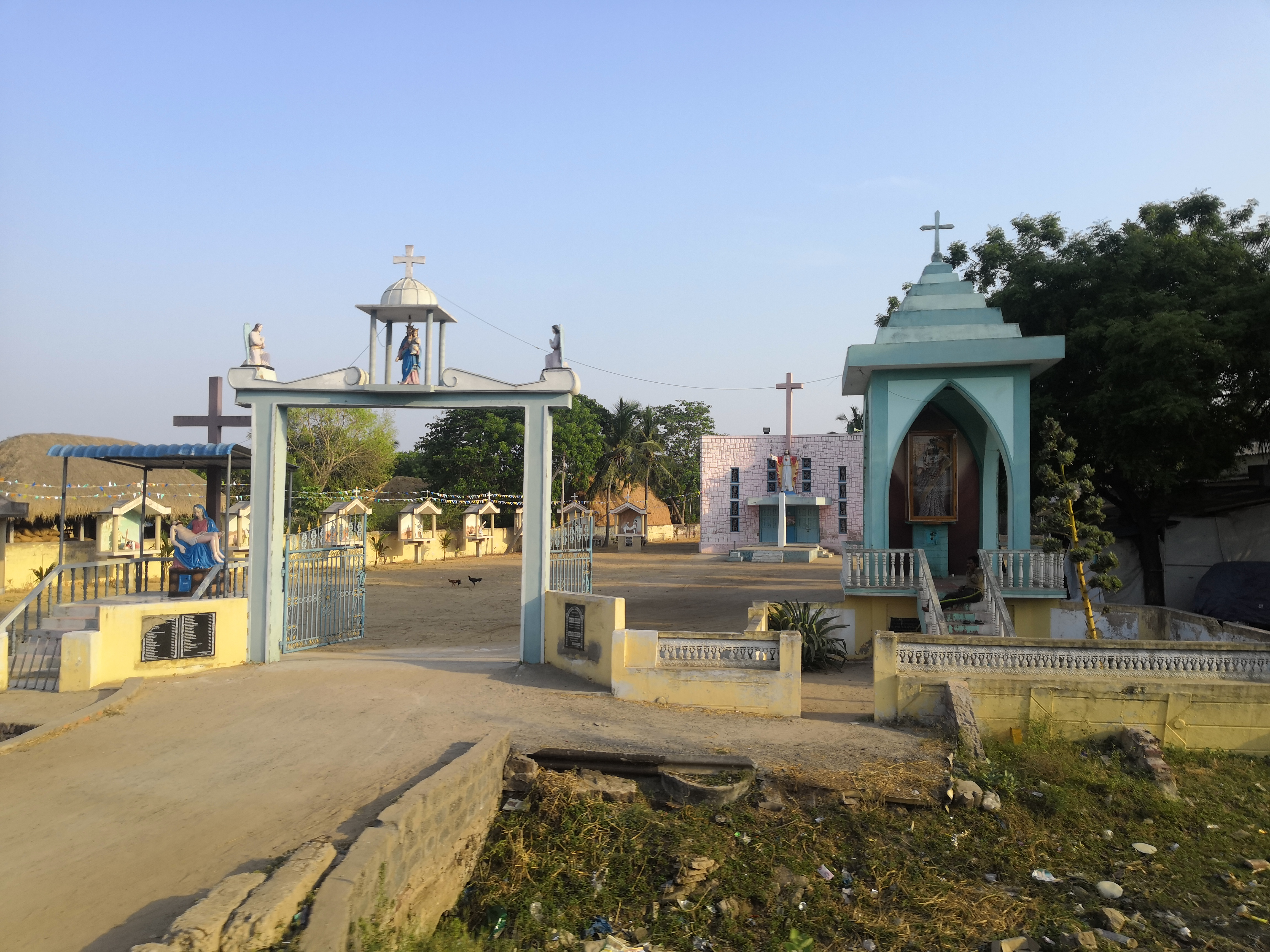 Church in Mudinepalli, Krishna District